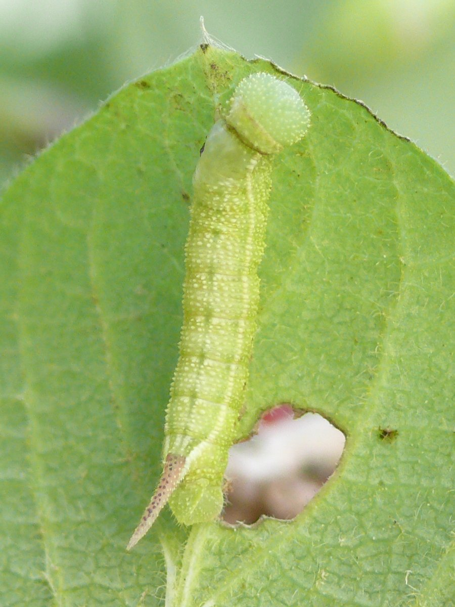 Caterpillar of the Broad-bordered Bee Hawk-moth (Hemaris fuciformis) in third larval state (L3), urban hinterland of Munich, Germany